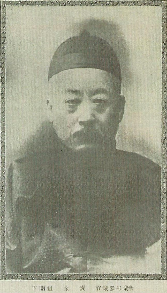 Yuan Jinkai (Yüan Chin-k'ai) (1870 - 1947)